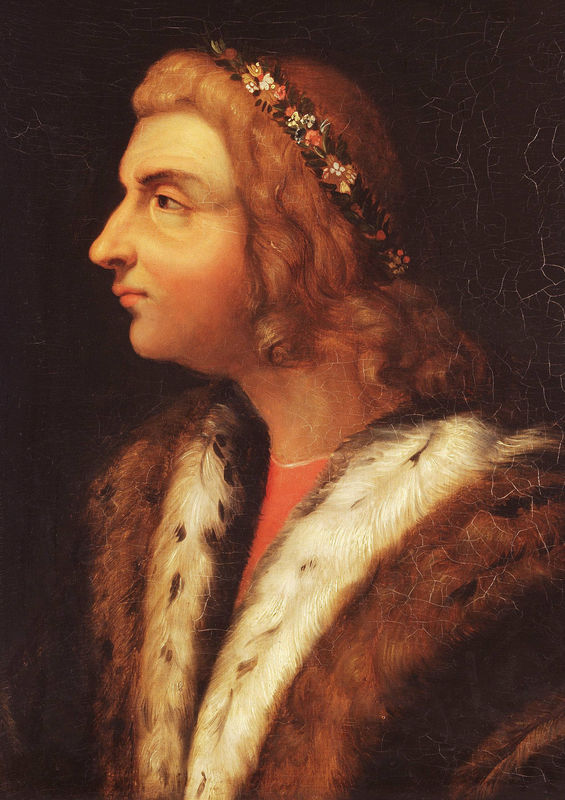 Matthias Corvinus, King of Hungary 1458-1490